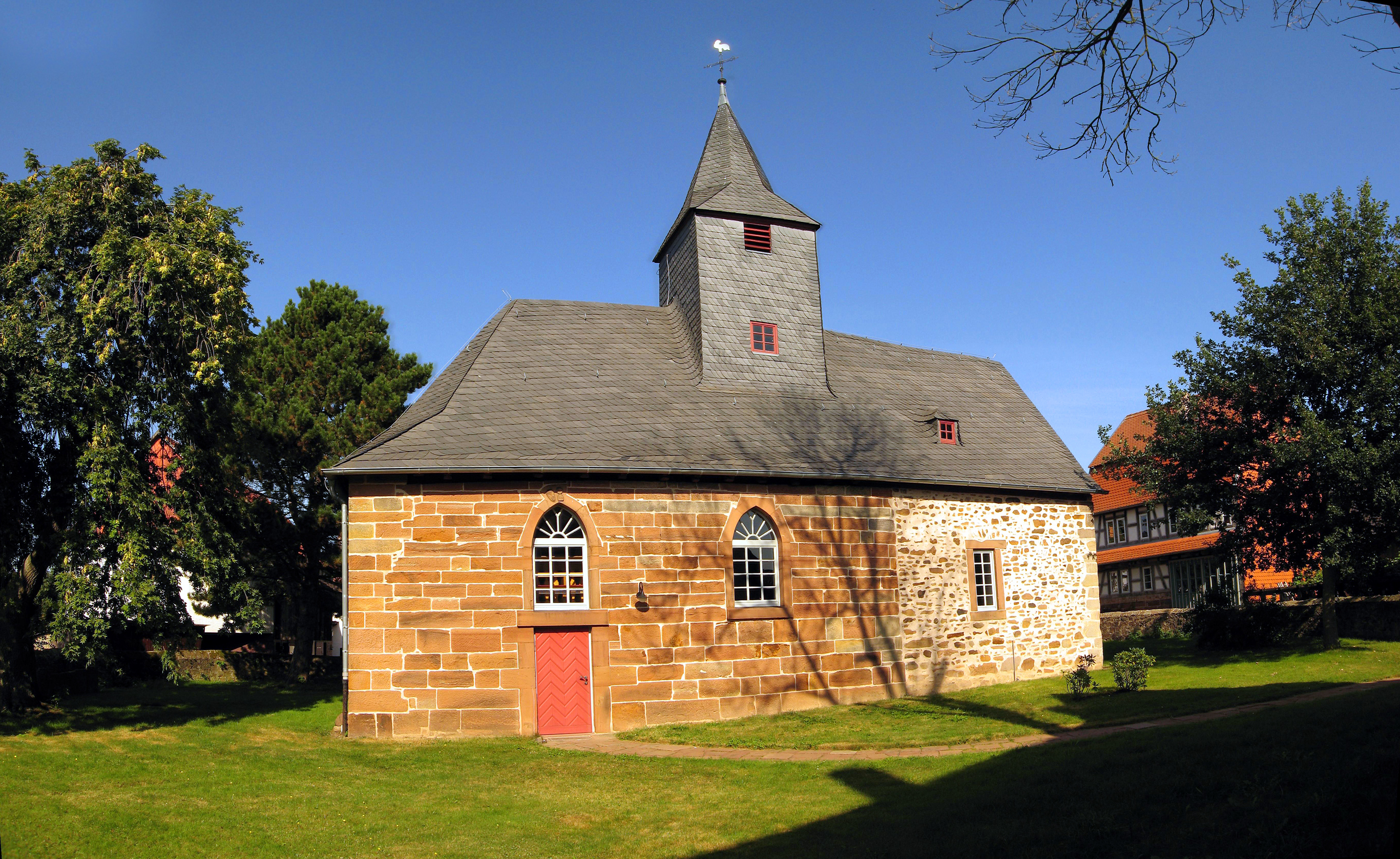 The church of Bellnhausen